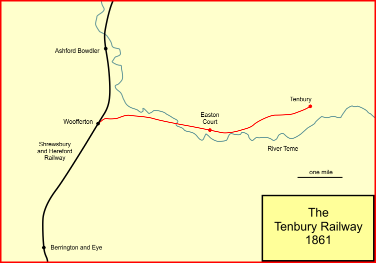 System map of the Tenbury Railway, Worcestershire, England, in 1861